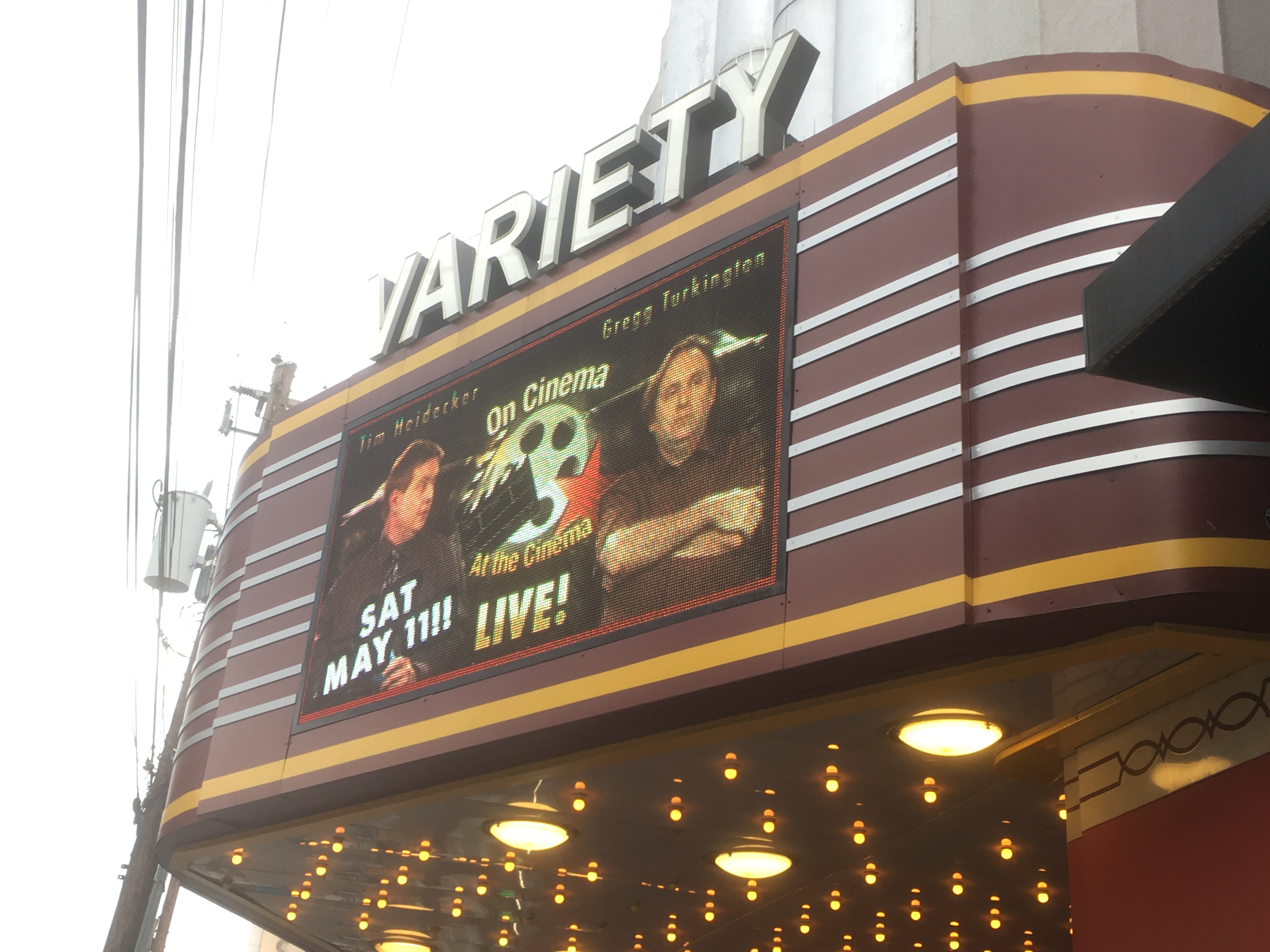 Marquee for the On Cinema Live show at the Varsity playhouse in Atlanta on May 11, 2019